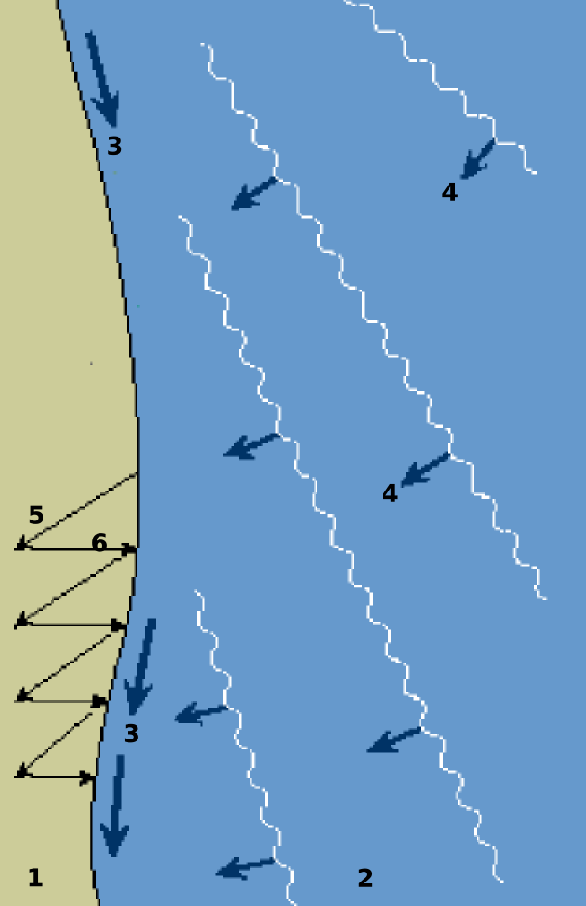 internationalization of the Longshore drift diagram. 1=beach 2=sea 3=longshore current direction 4=incoming waves 5=swash 6=backwash